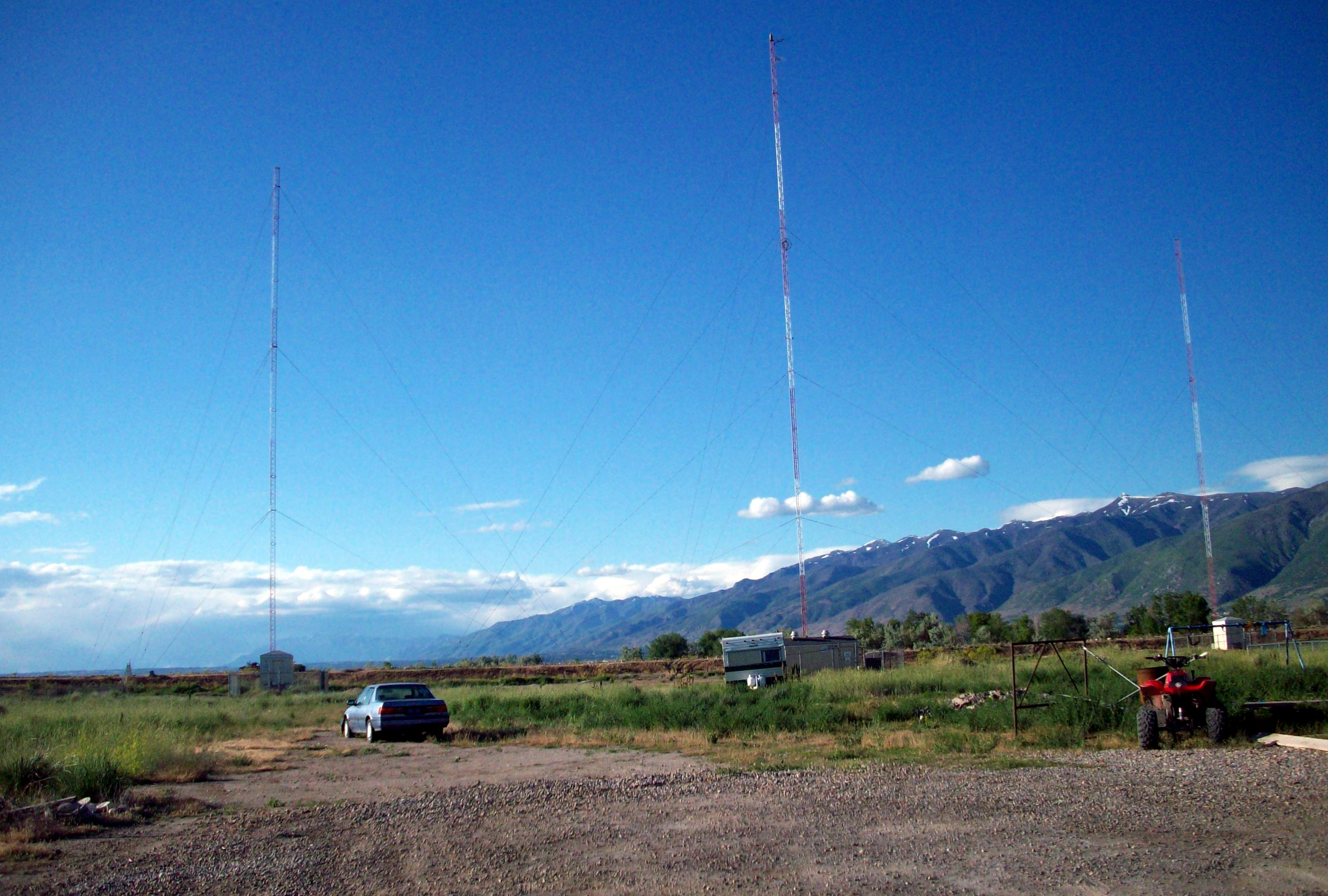 The three towers for KTUB 1600, Centerville, Utah.